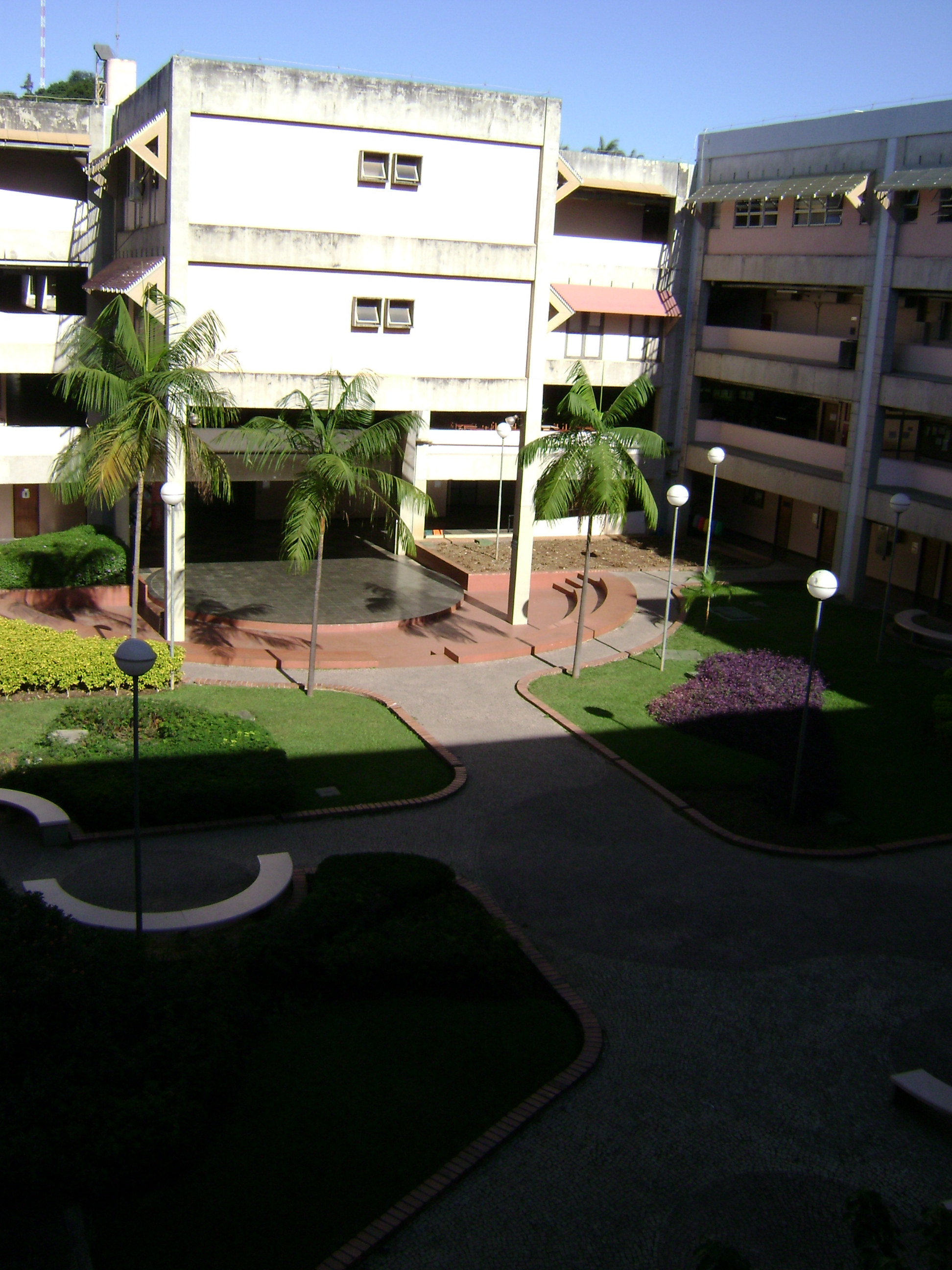 Interior do Instituto de Ciências Exatas da UFMG.